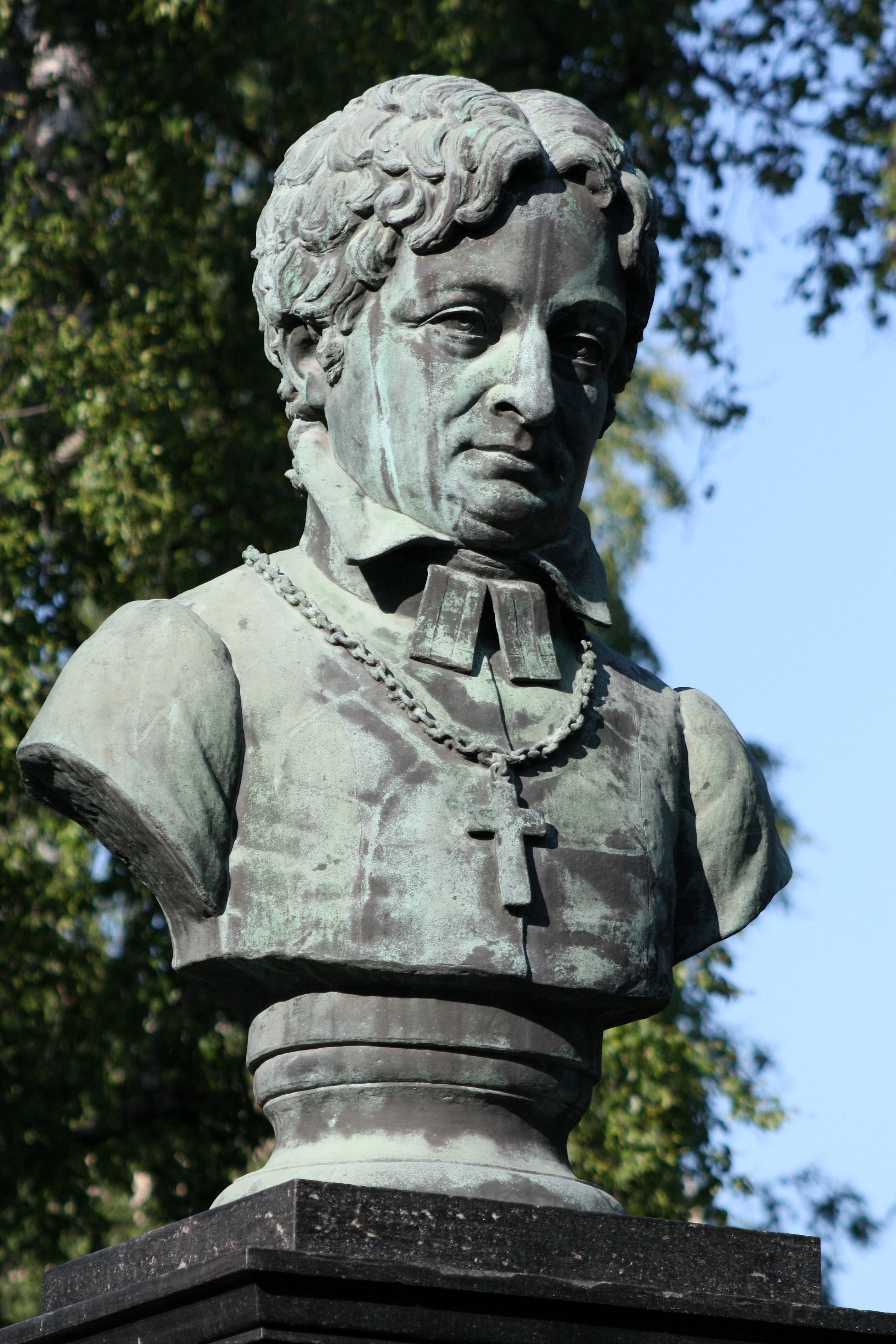 Statue of Frans Michael Franzén by Erland Stenberg (1879) at Franzéninpuisto park in Oulu, Finland.